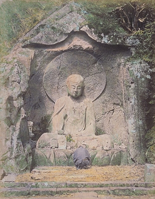 Rokudo Jizo at Moto-Hakone, Kanagawa Prefecture, Japan; photograph by Adolfo Farsari